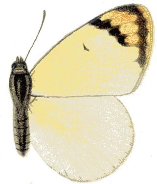 SeitzFaunaAfricanaXIIITaf20 Colotis subfasciatus (Swainson, 1822)